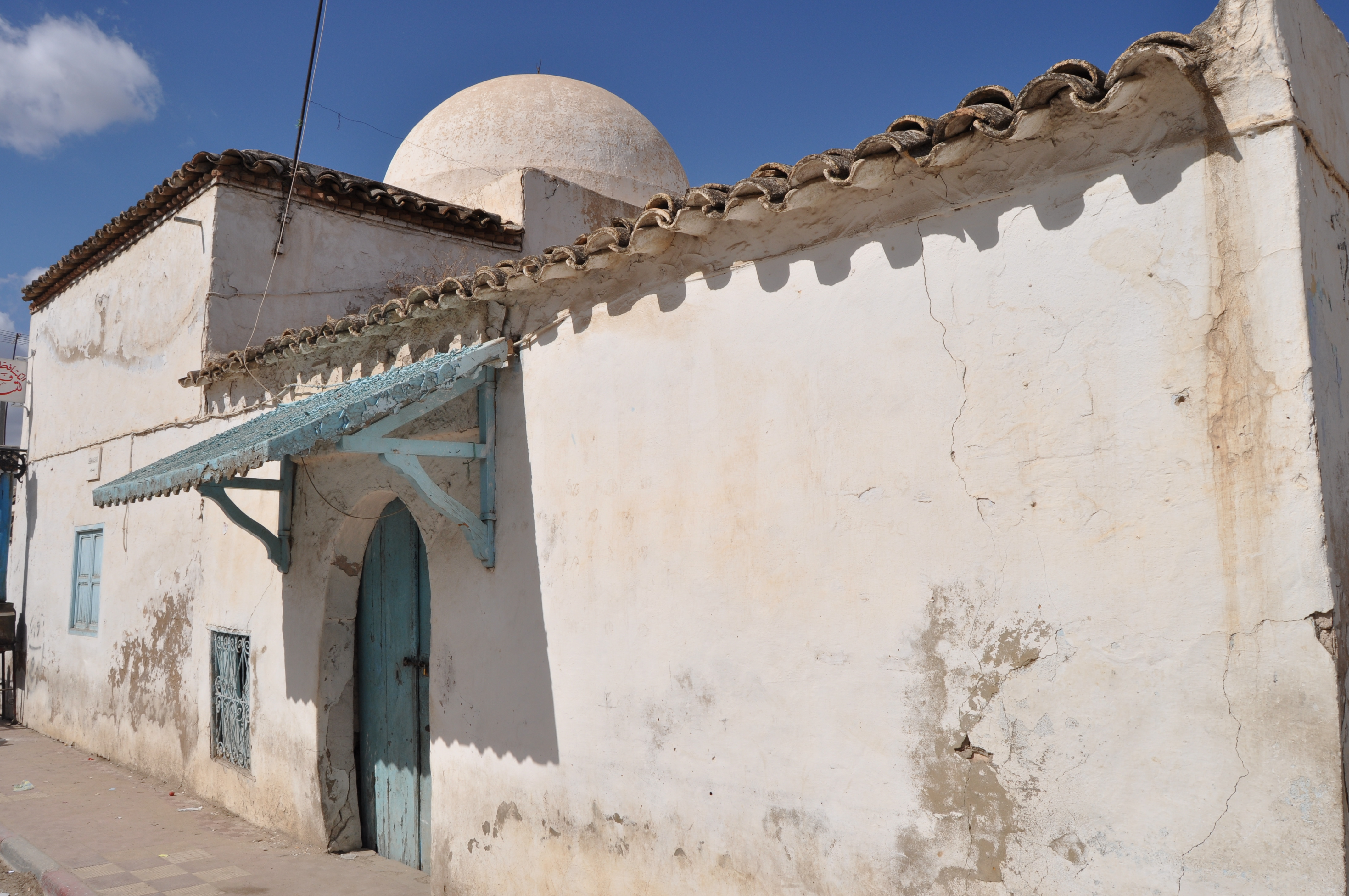 Zaouia Ibrahim Raach, Testour, Tunisia